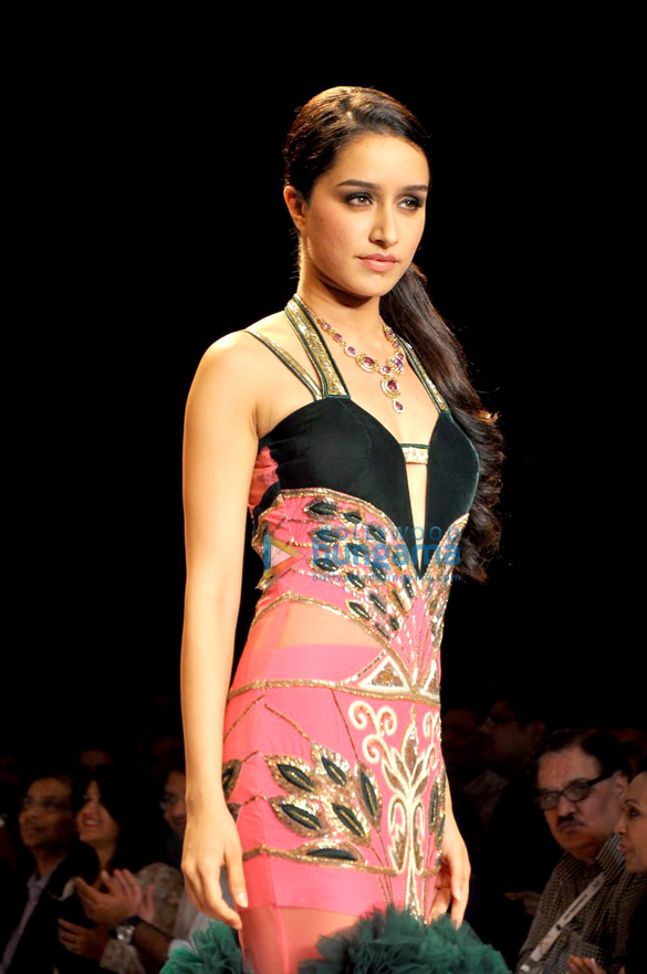 Shraddha Kapoor walks for Gitanjali collection at Lakme Fashion Week 2014